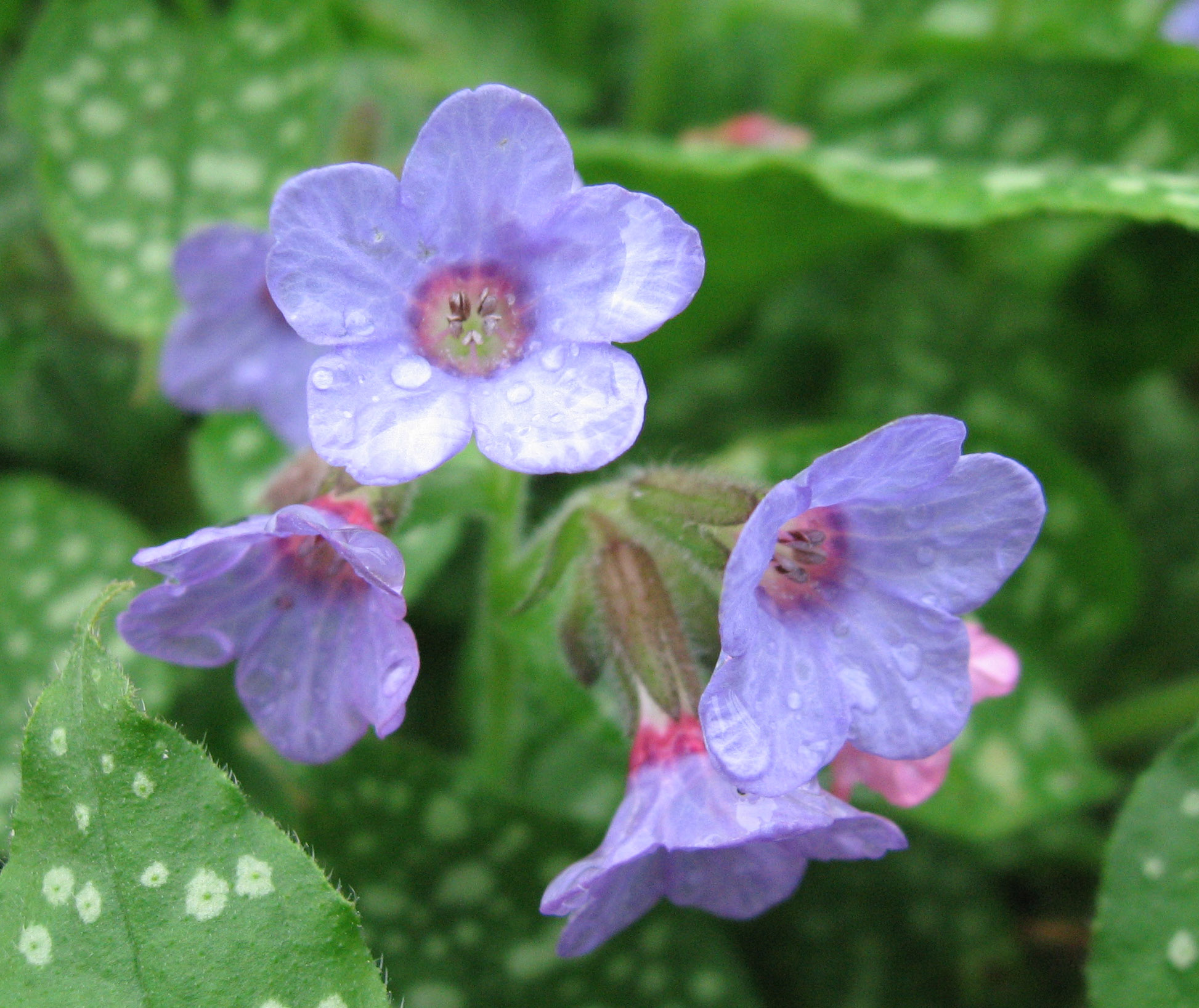 The flowers of a Lungwort (Pulmonaria officinalis). Image by Pharaoh Hound.